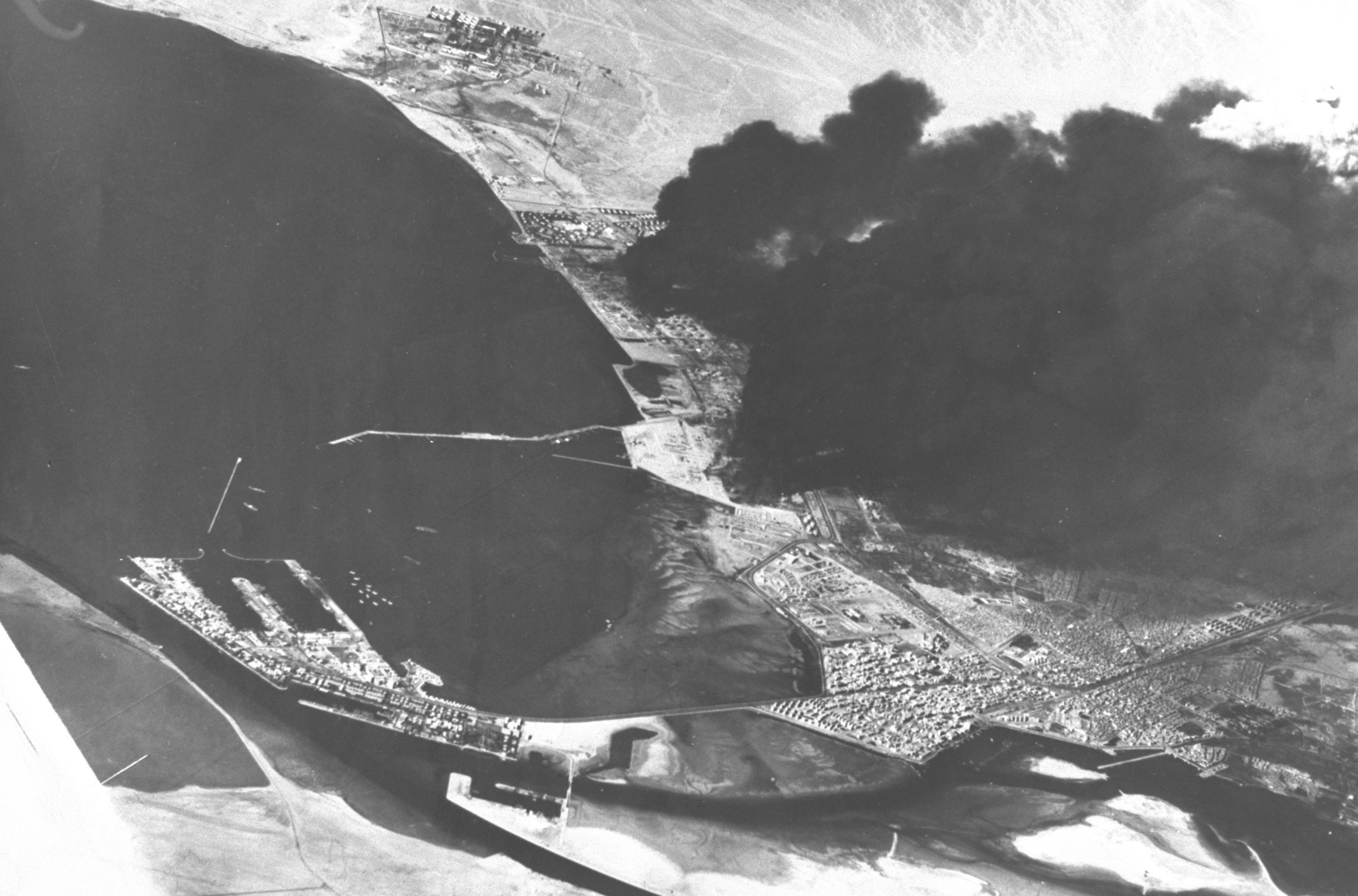 Burning oil installations and refineries at Suez damaged by Israeli artillery fire during the War of Attrition.